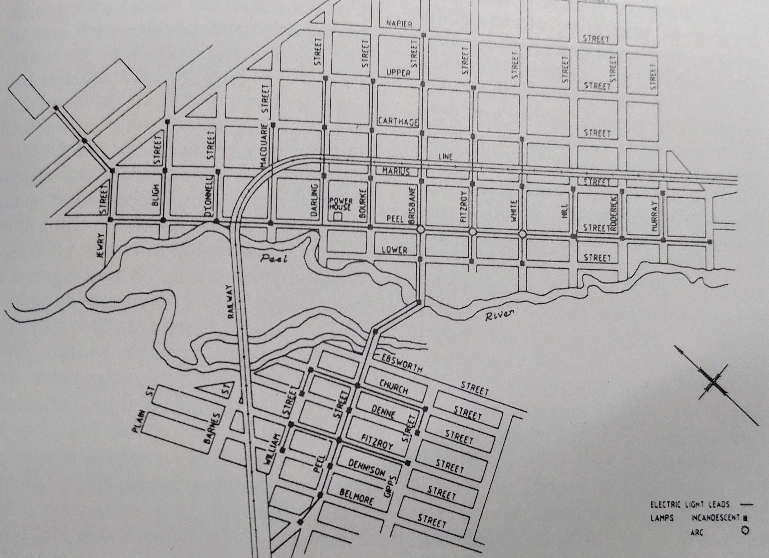 Map of Tamworth NSW showing the position along the network of city streets of the Electric Light Station leads, incandescent lamps and arc lamps for the first widespread and permanent city electric street lighting in the Southern Hemisphere.